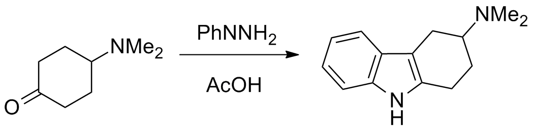 US Pat. 3959309